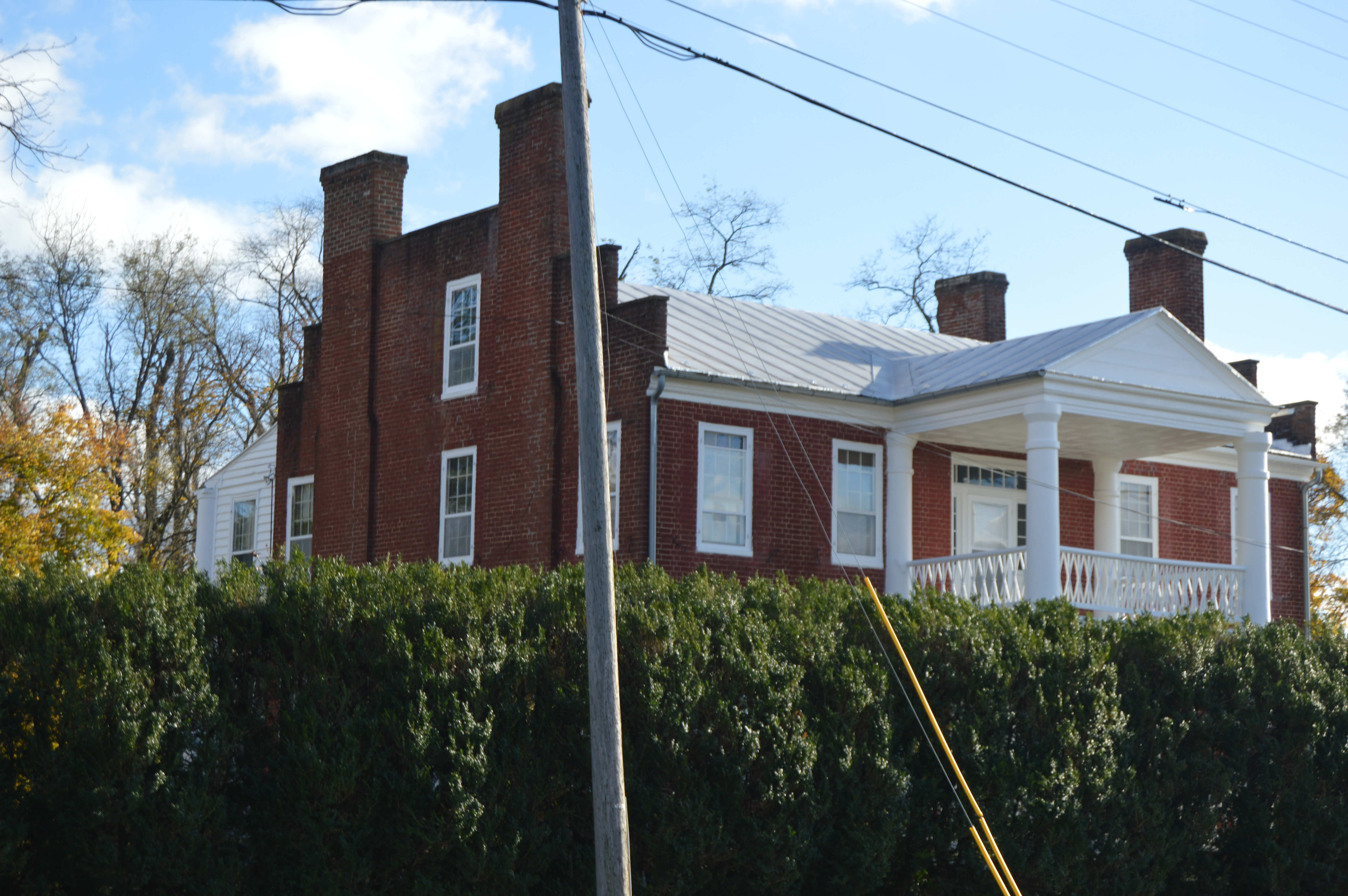 Front and northeastern side of the Jonathan Peale House, located at the intersection of U.S. Route 33 and State Route 276 southeast of Harrisonburg in Rockingham County, Virginia, United States. Built in 1845, it is listed on the National Register of Historic Places.